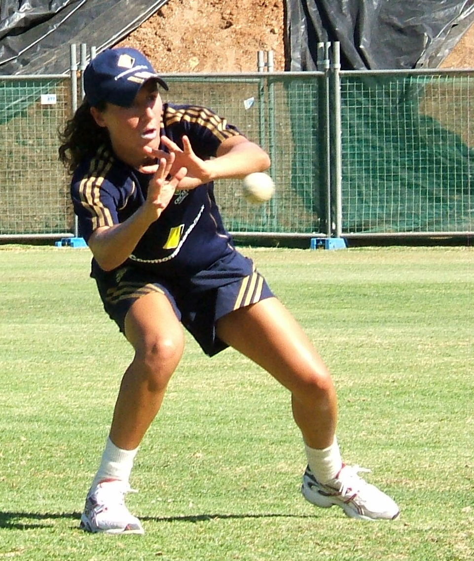 Named person engaging in named action at Adelaide Oval nets/training ground